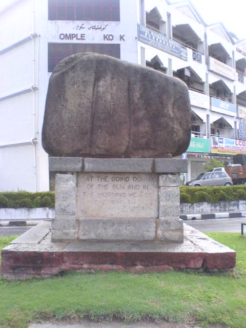 Batu Tenggek War Memorial in Teluk Intan Malaysia I captured this picture by using a camera with a resolution of 2.0 megapixel.